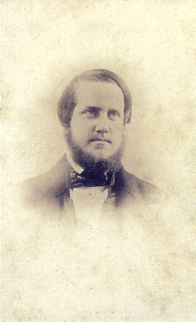 Dom Pedro II, Emperor of Brazil, around age 22. This is a later carte de visite copy (owned by his daughter Isabel) of a lost daguerrotype, hence the lower quality